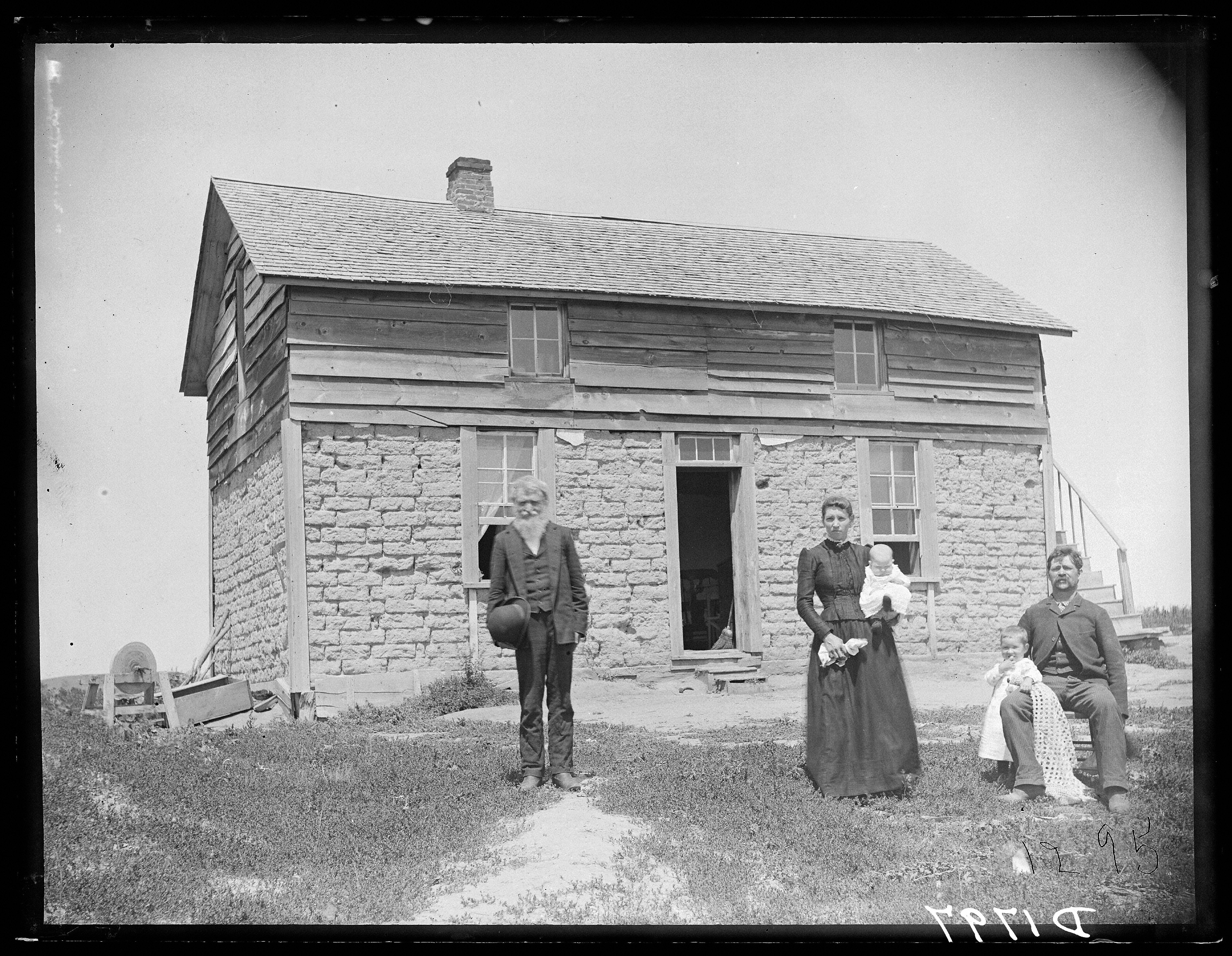 Solomon D. Butcher photograph of Frederic Schreyer sod house in Custer County. Photographed in 1880s; published in Butcher's "Pioneer History of Custer County, and Short Sketches of Early Days in Nebraska", 1901, p. 14.